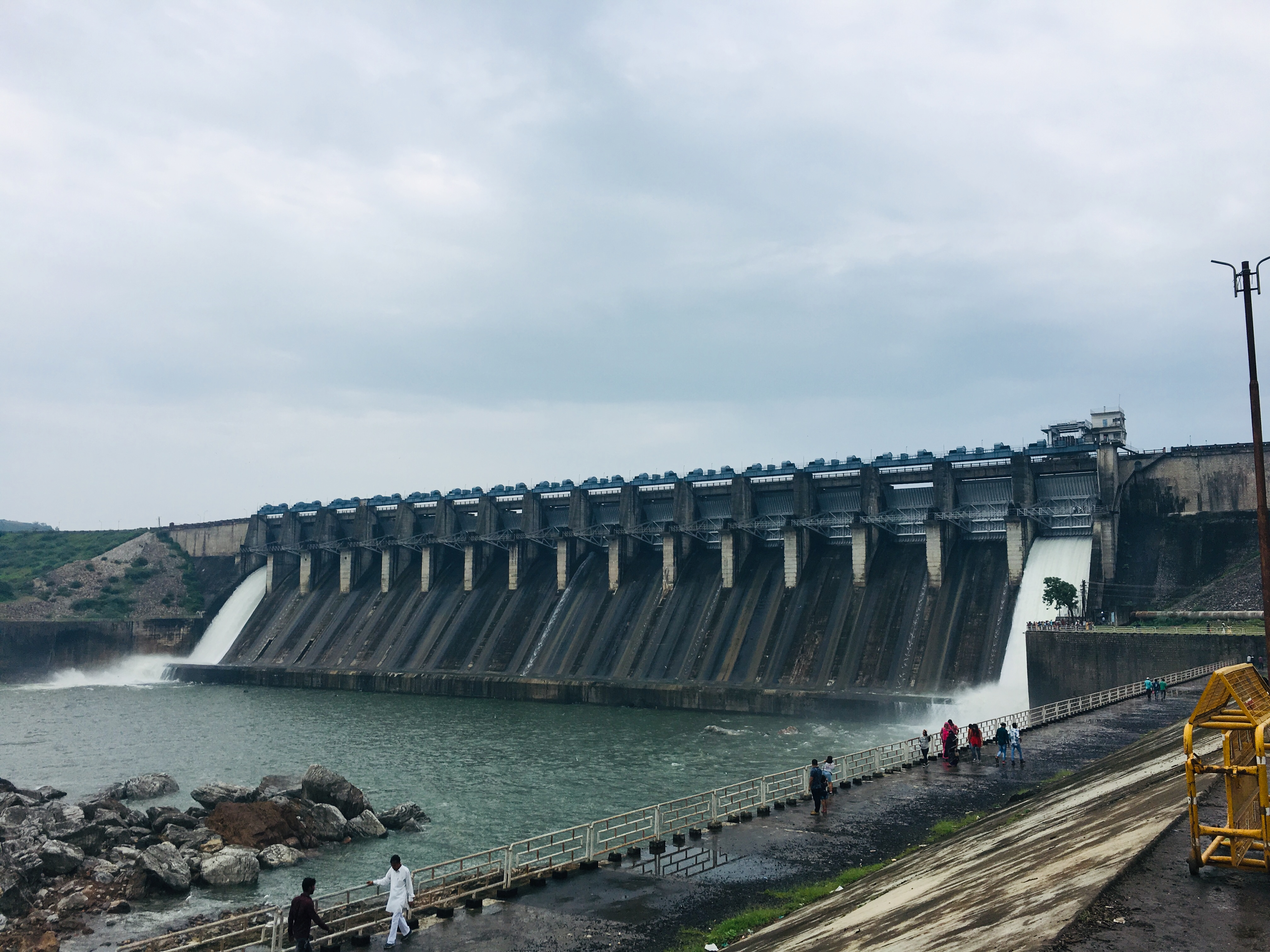 A gate side photo of Bajaj Sagar Dam built on Mahi river in Banswara.